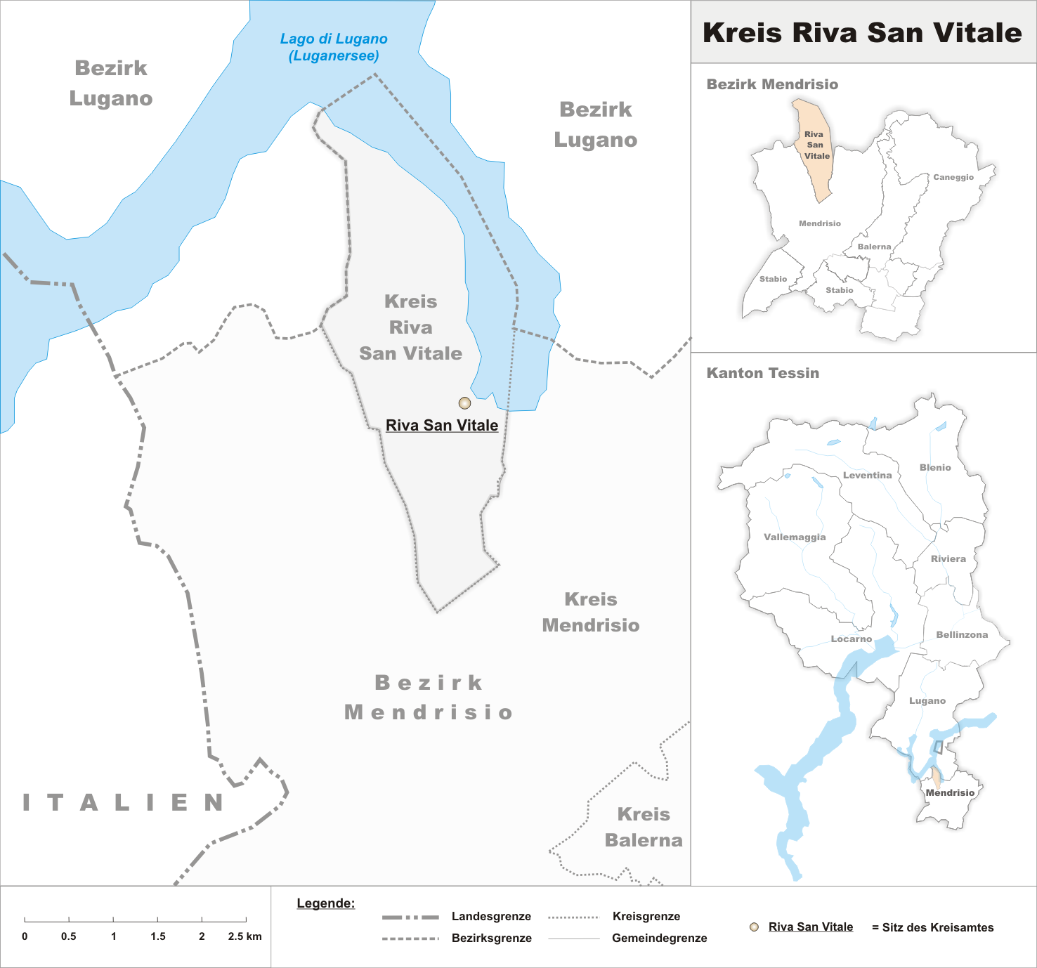 Municipalities in the circle of Riva San Vitale